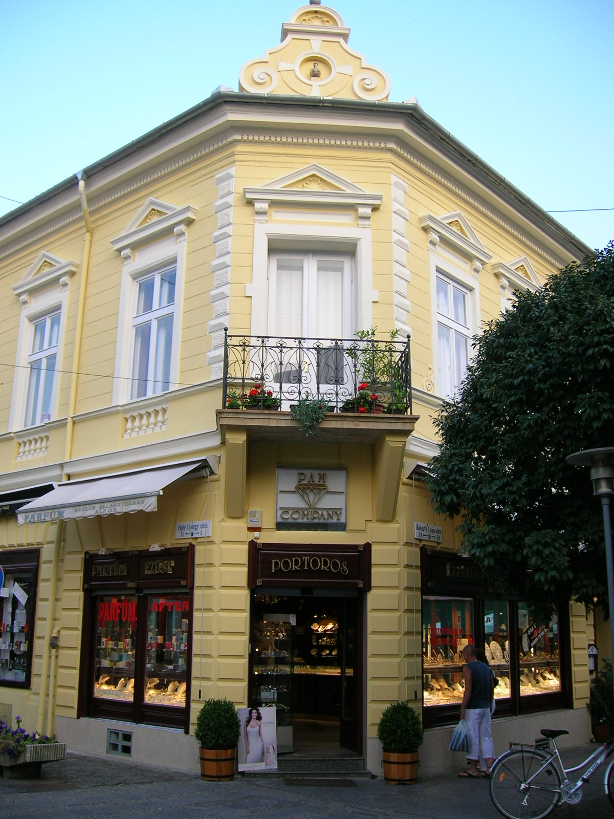 Town centre. Keszthely, Hungary.